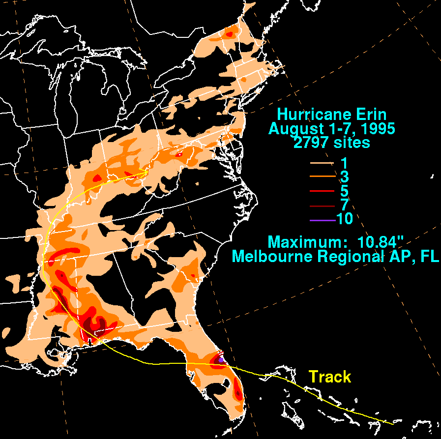 Rainfall produced by Hurricane Erin during August 1995.